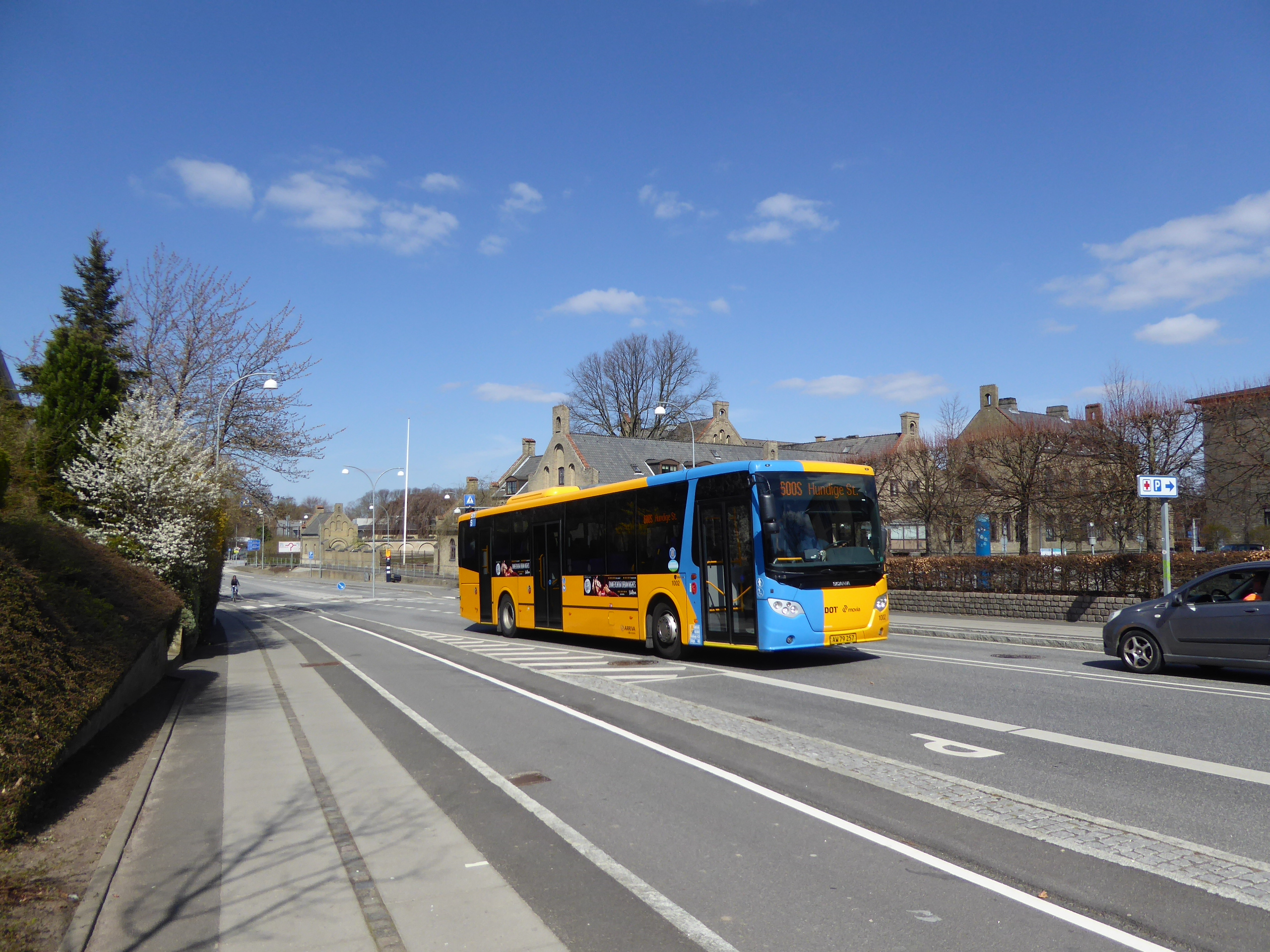 Movia bus line 600S on Køgevej in Roskilde in Denmark.